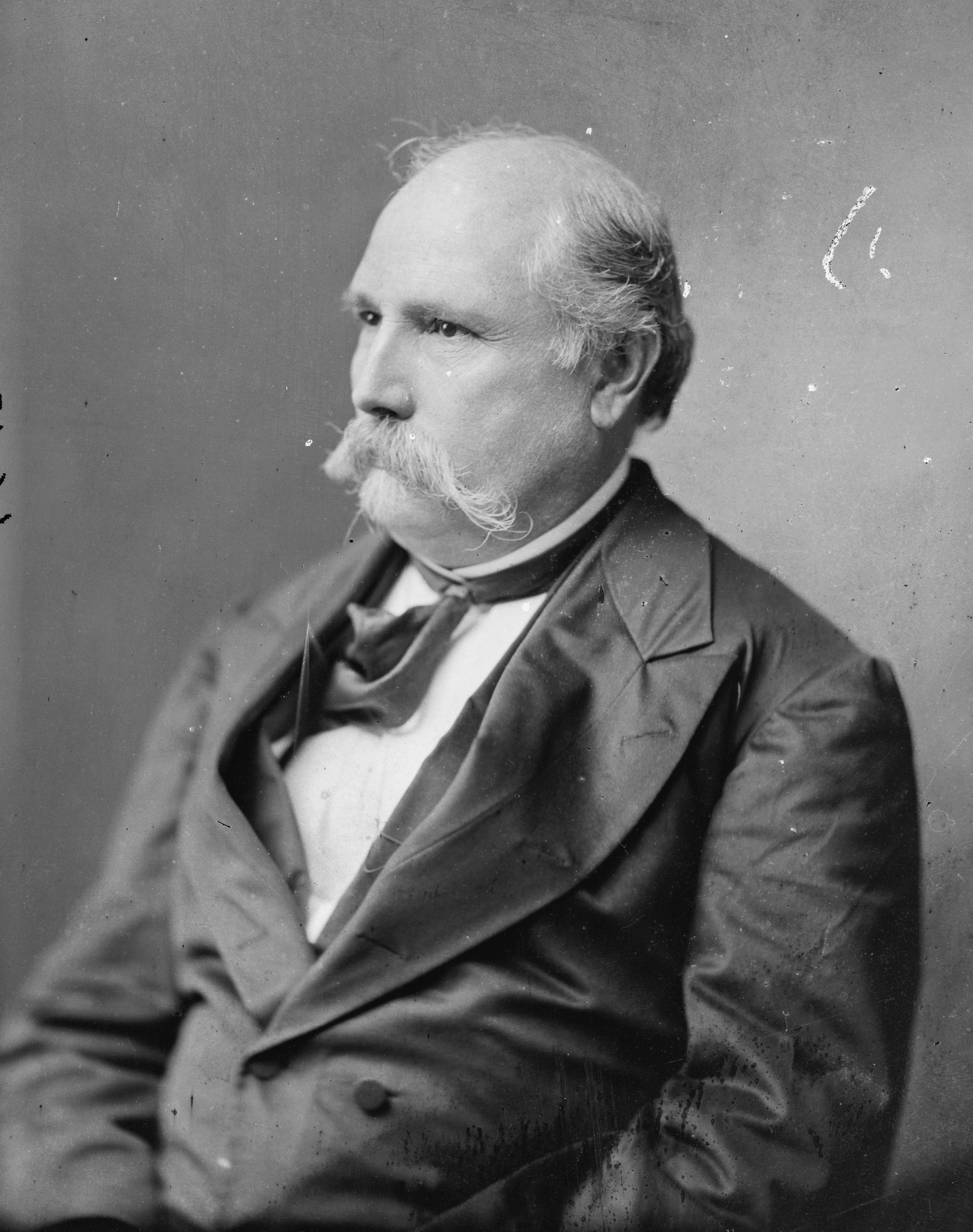 James L. Alcorn. Library of Congress description: "Alcorn, Hon. James Lusk. Senator from Miss."